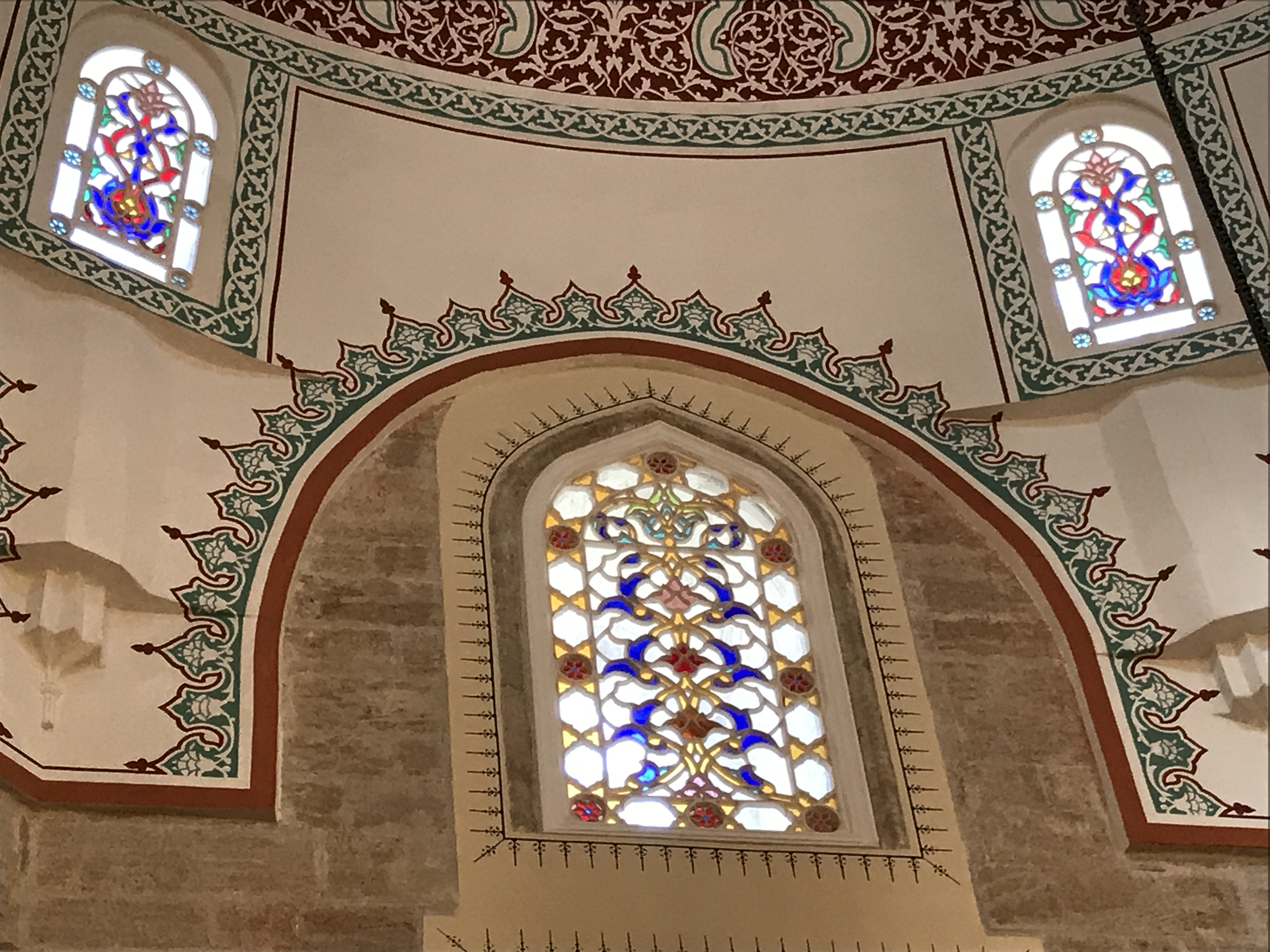 Mihrimah Sultan Mosque (built 1548), is an Ottoman mosque located in the historic center of the Üsküdar municipality in Istanbul, Turkey. It is the first of two mosques built by Mihrimah Sultan, daughter of Sultan Suleiman the Magnificent and wife of Grand Vizier Rüstem Pasha. It was designed by Mimar Sinan and built between 1546 and 1548.